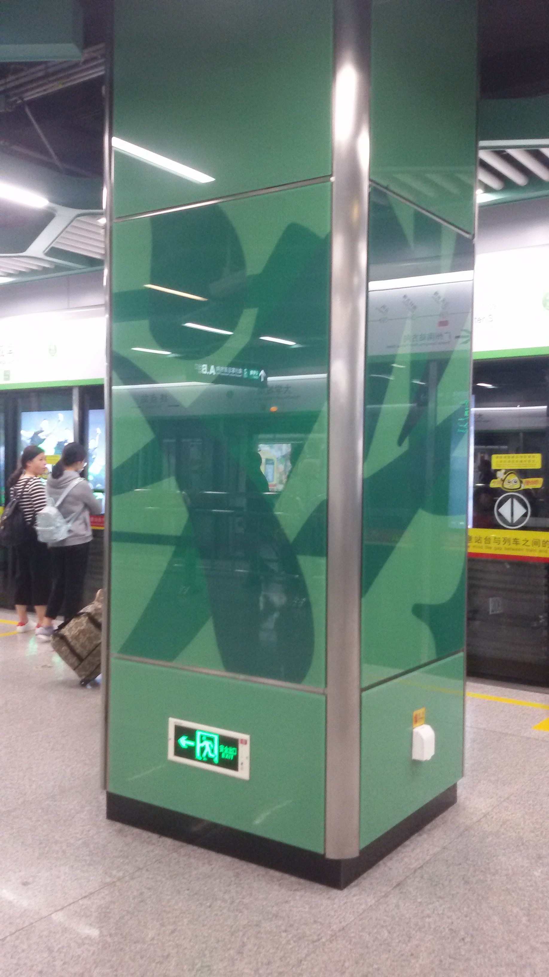 Cultural Decoration on PILLAR for Line 7 in Higher Education Mega Center South Station, Guangzhou Metro